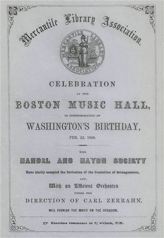 Mercantile Library Association. Celebration at the Boston Music Hall, in commemoration of Washington's birthday, Feb. 22, 1859. The Handel and Hayden Society have kindly accepted the invitation of the committee of arrangements ...